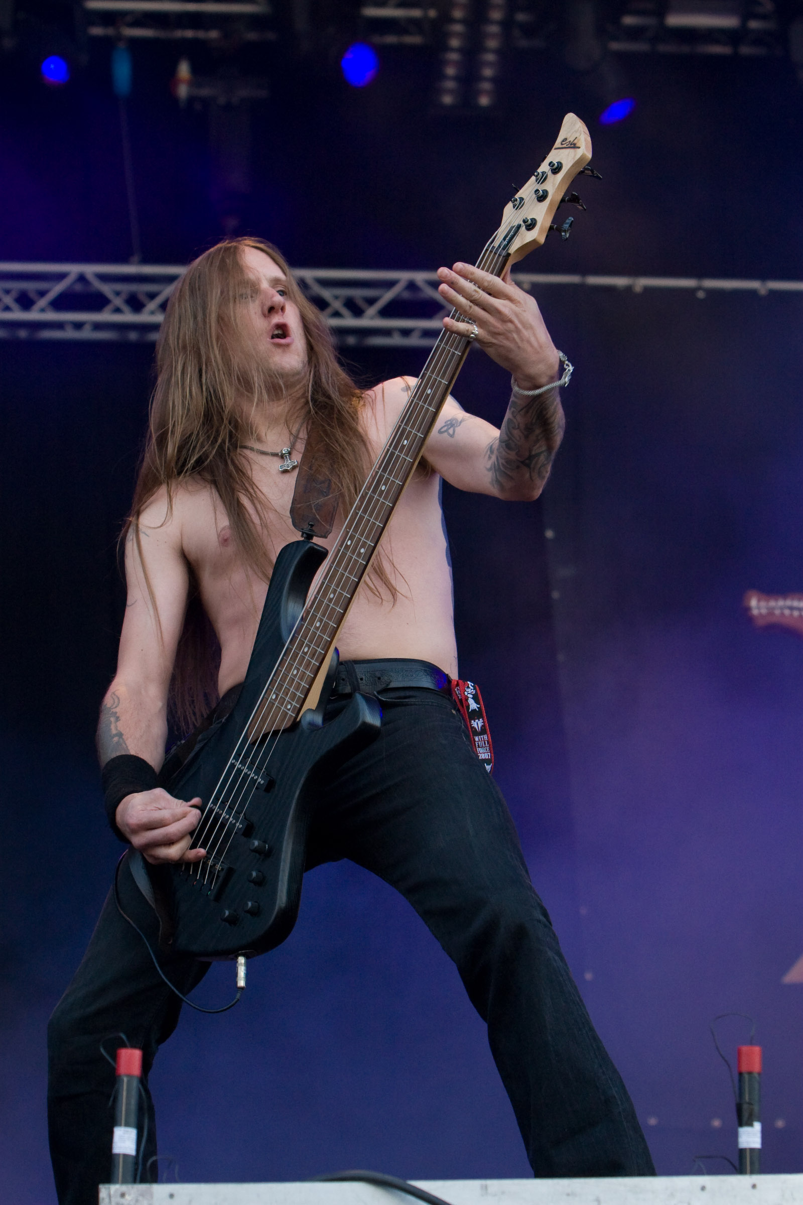 Ted Lundström of Amon Amarth